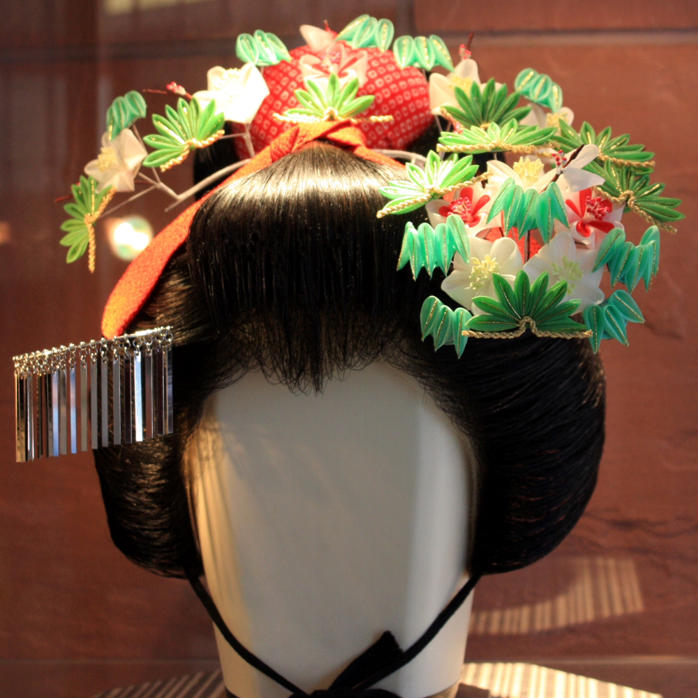 Made by Atelier Kanawa January kanzashi for maiko (geisha apprentice) with pine, bamboo, plum. Size: yokozashi (side kanzashi) diameter approx. 5 in = 12.5 cm, maezashi (front kanzashi) 11 in = 26 cm long. Material: Habutae hand-dyed silk (dye by Atelier Kanawa), traditional aluminum hairpin, silk thread, metalic wire, wire, silver beads.